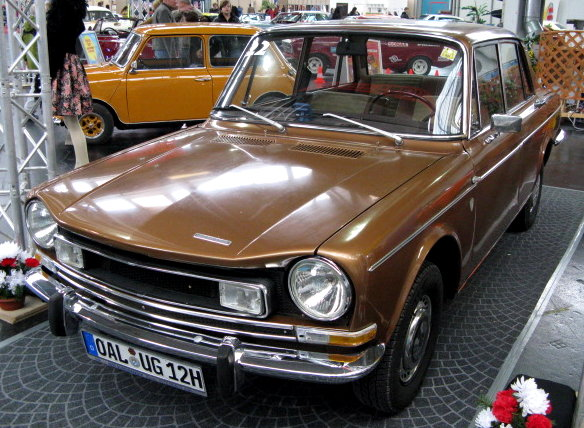 1968 Simca 1301